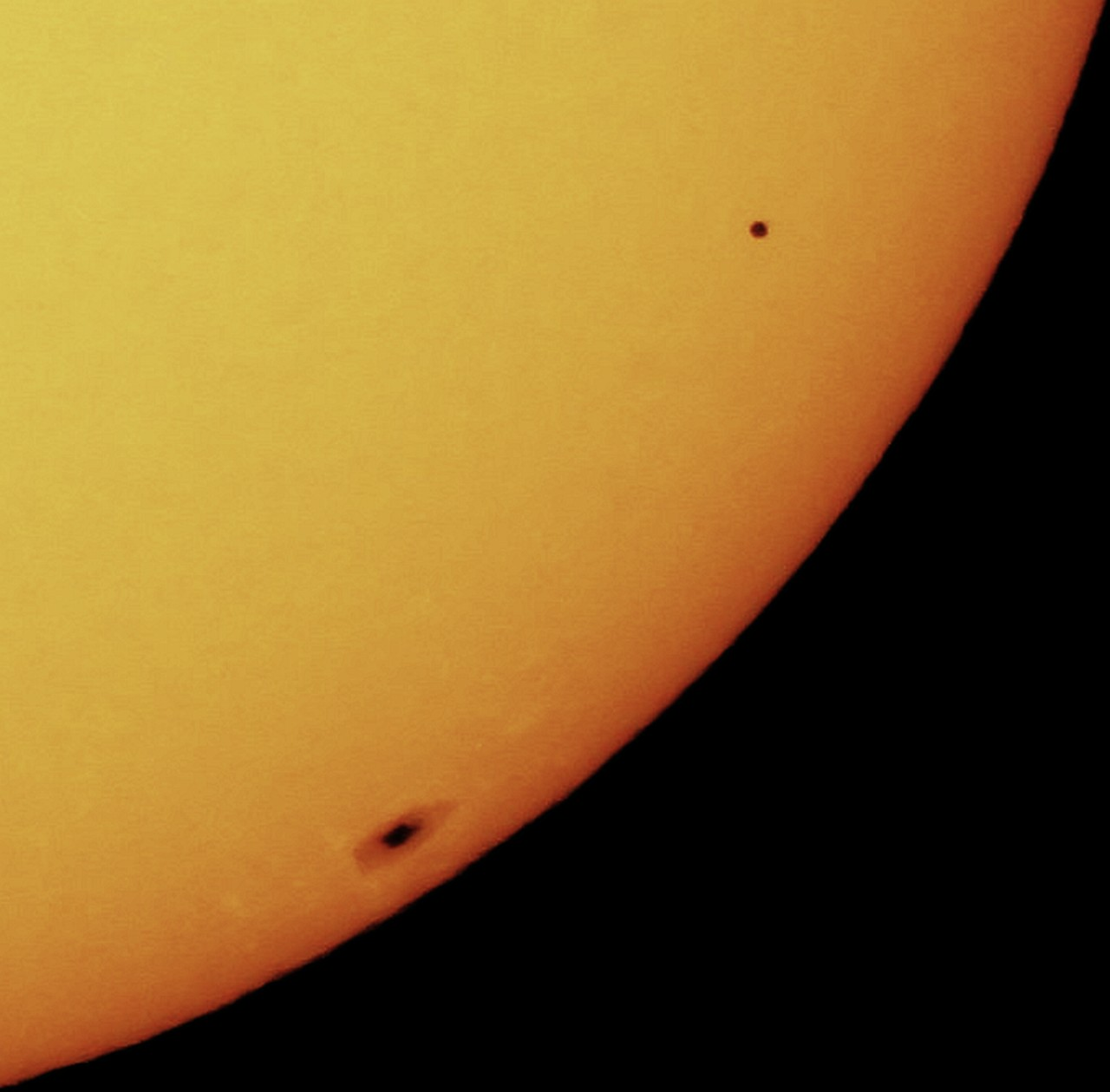 Mercury on Sun - Rare Transit